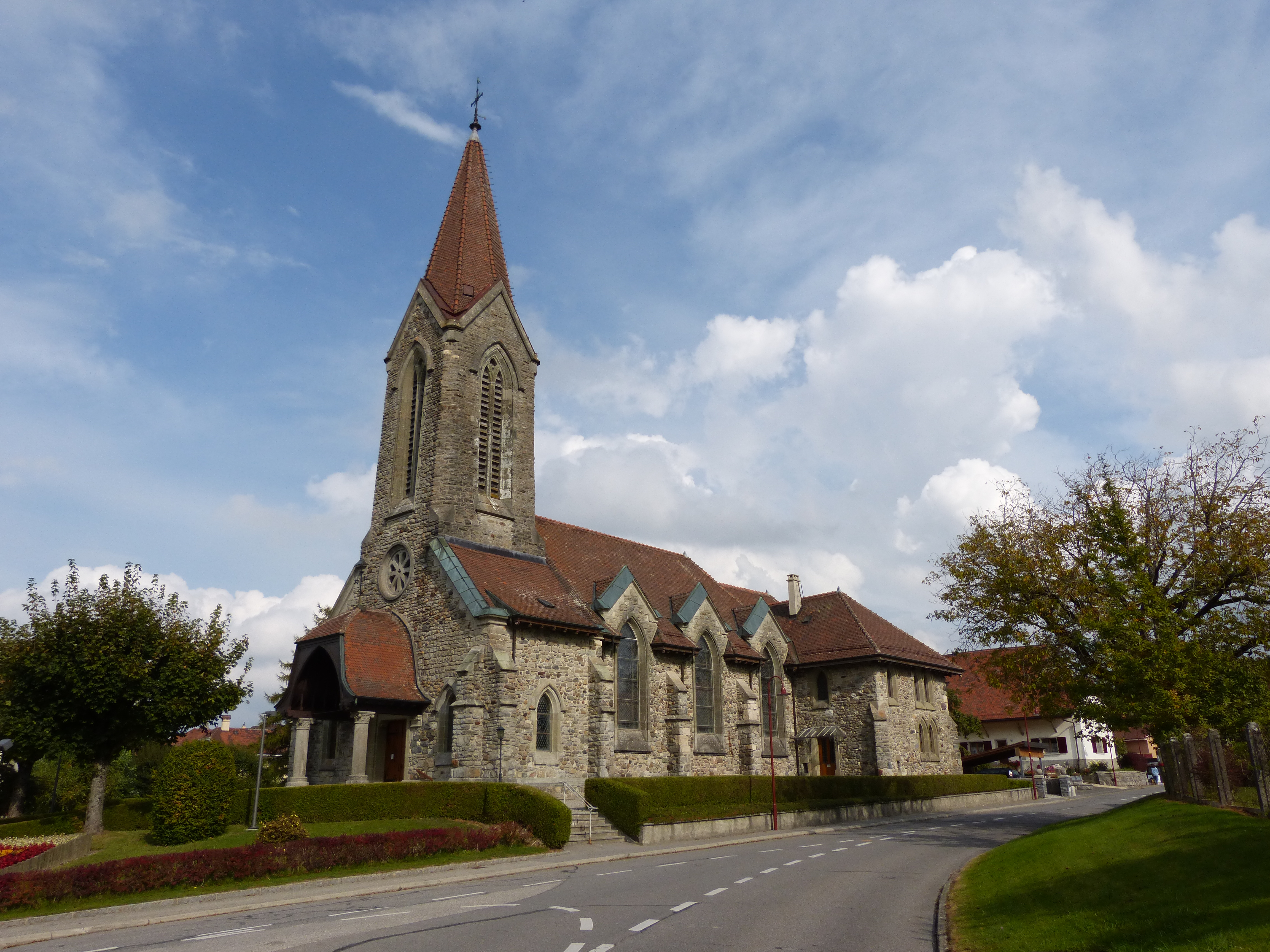 South-west view of the church saint Mary-Magdalene of Poliez-Pittet.